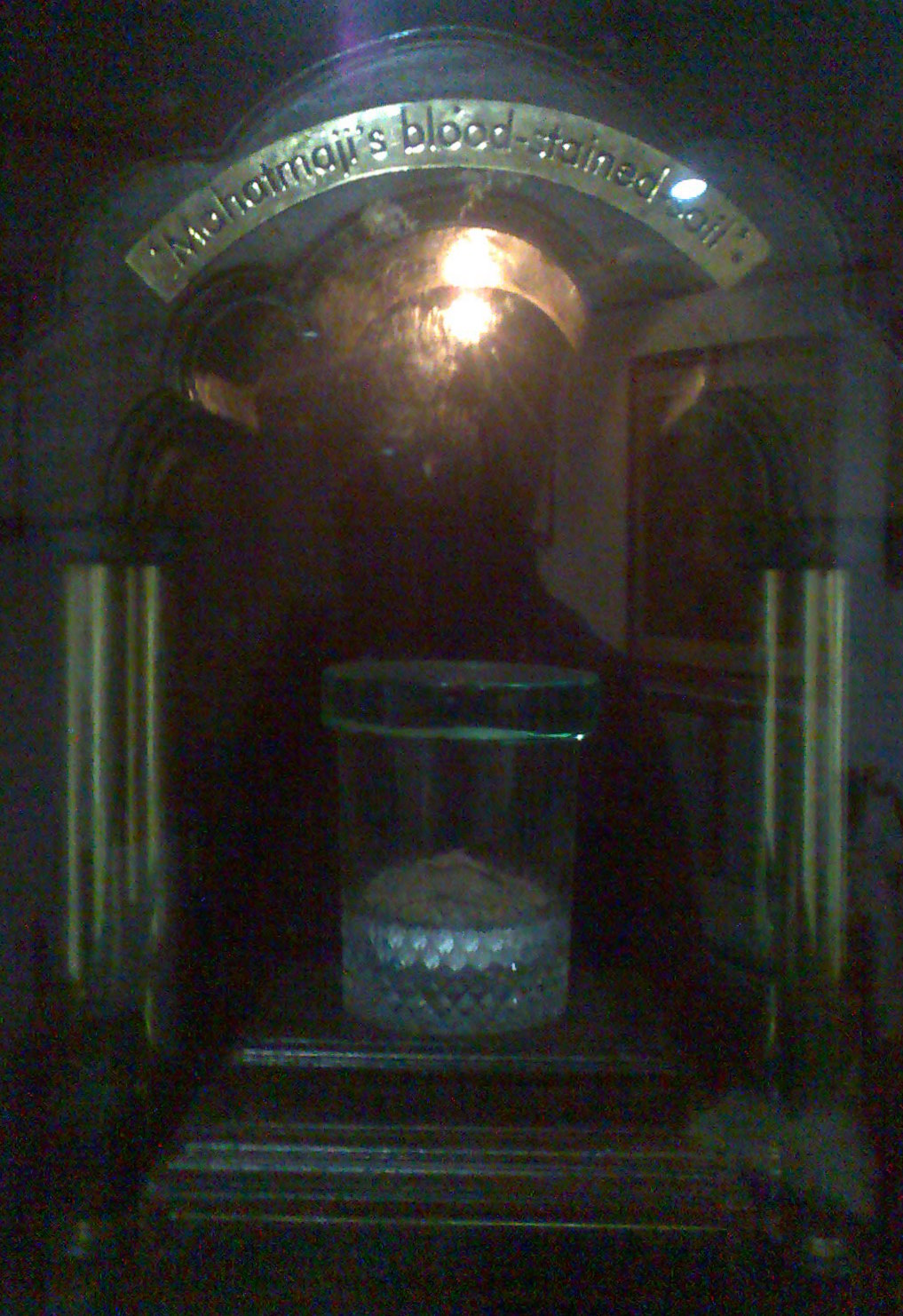 Mahatma Gandhi's blood-stained soil collected from Birla house and kept on diplay at Mathrubhumi office, Kozhikode